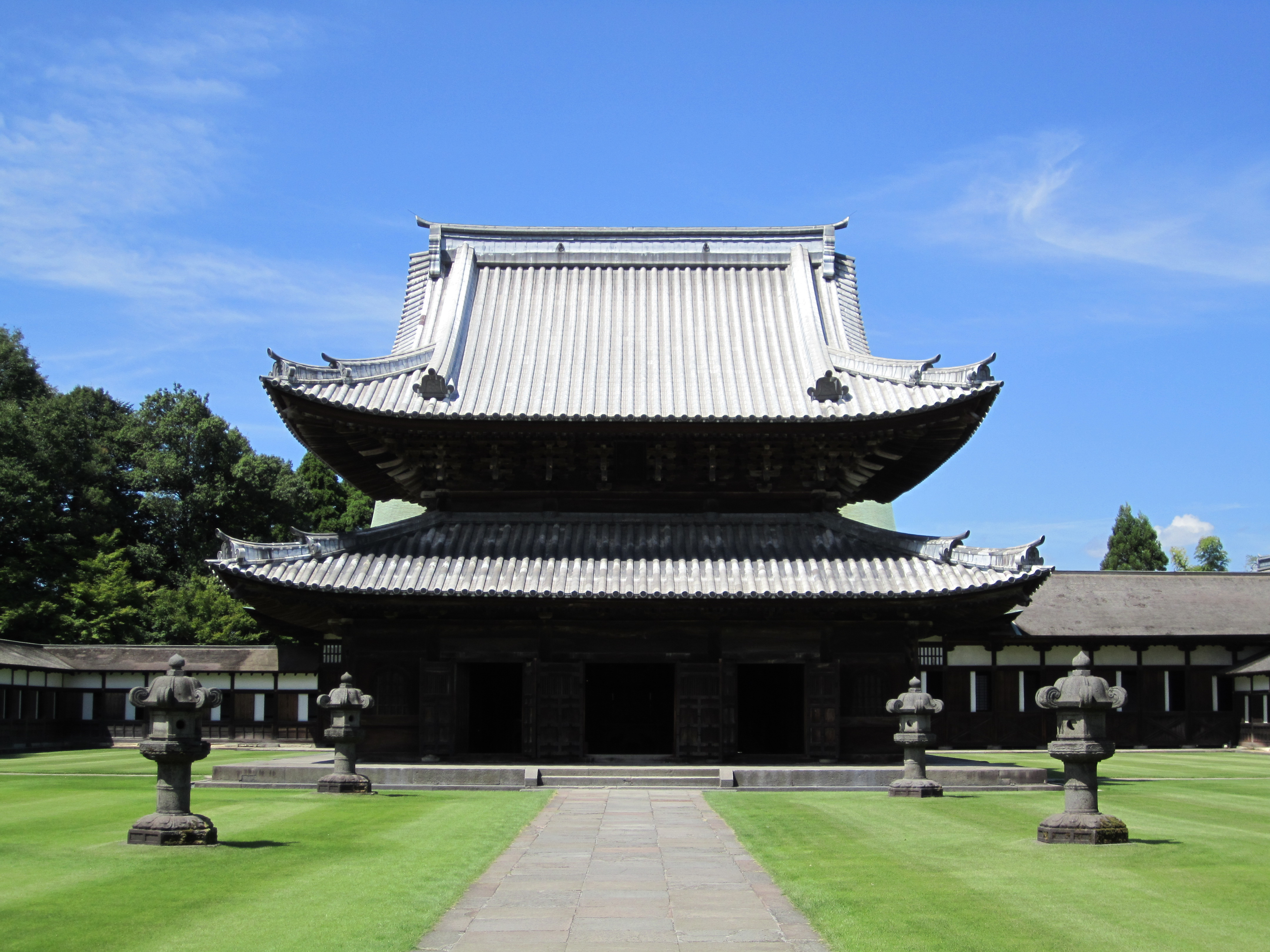 Butsuden, Zuiryuji Temple